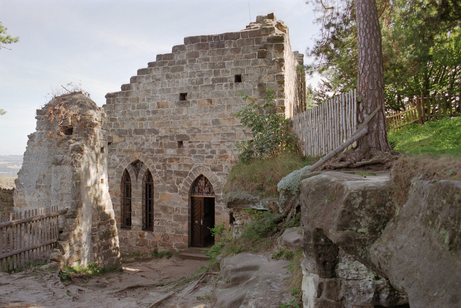 Castle Valdštejn in Czech Republic picture taken by me in summer 2004 license: Gnu-FDL